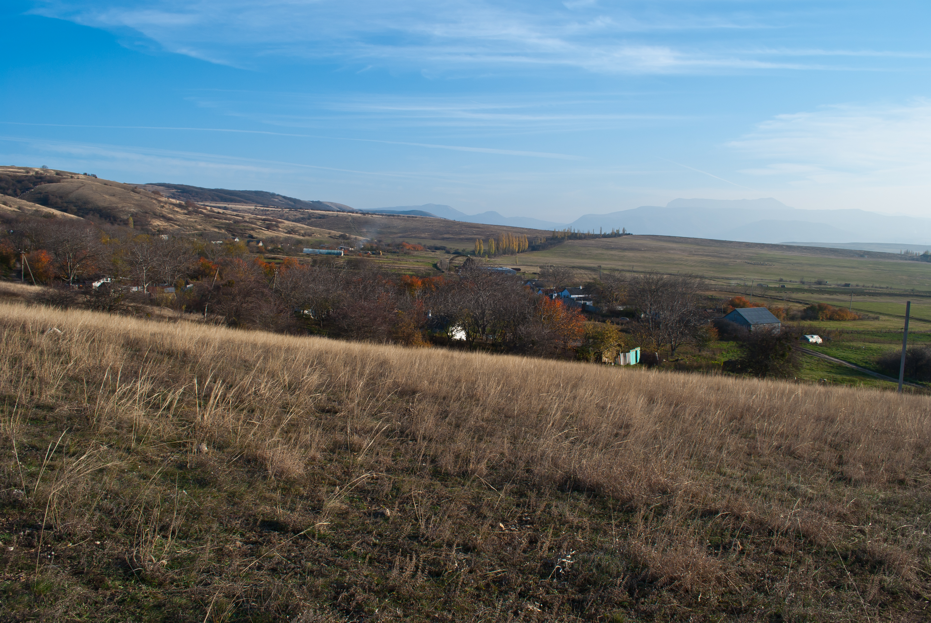 Photo of the village Lazarevka (Simferopol district, Crimea).